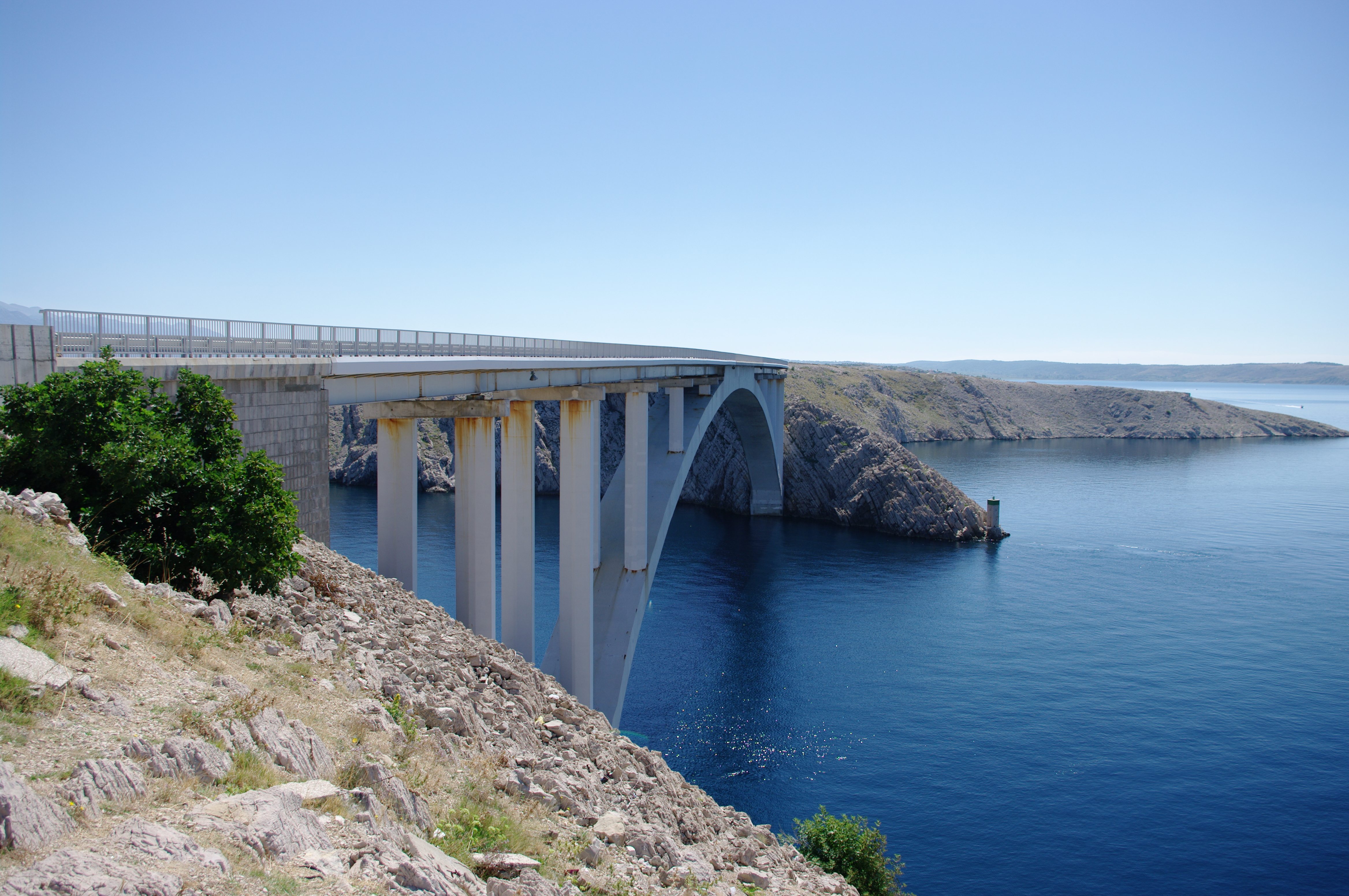 Пажский мост